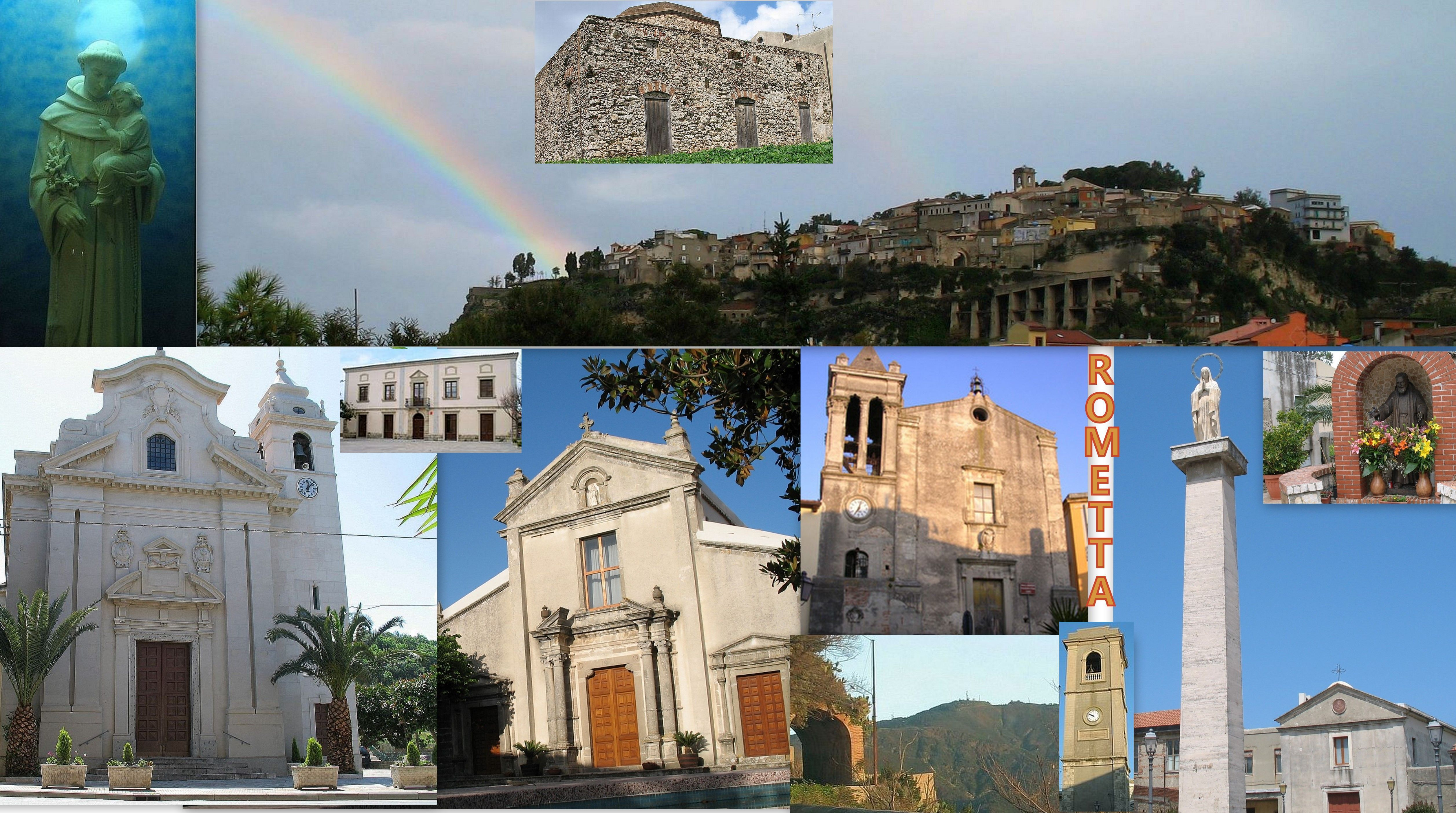 rOMETTA CITTà BIZANTINA